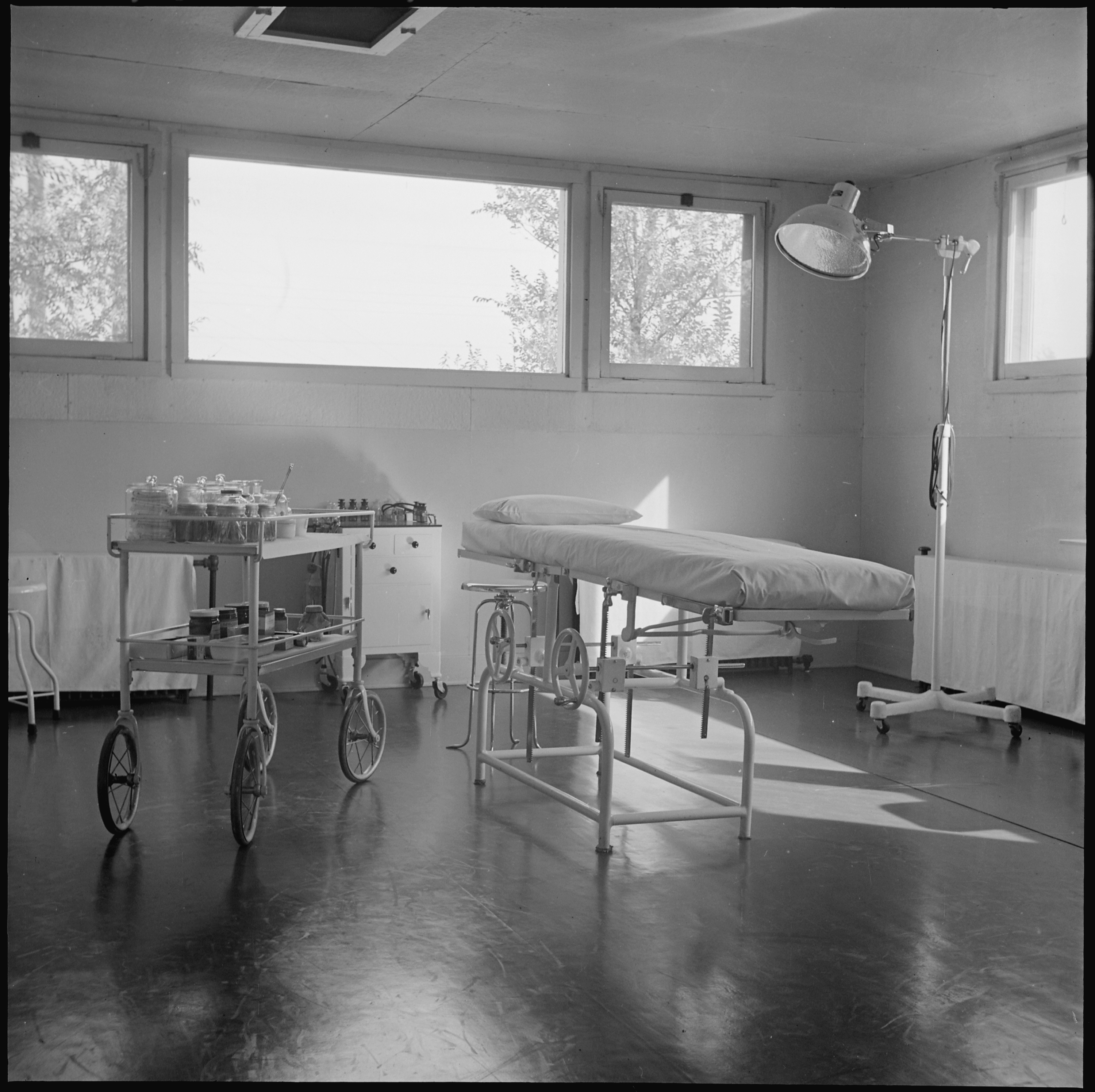 Scope and content: The full caption for this photograph reads: Granada Relocation Center, Amache, Colorado. Main operating room in Amache hospital. A total of nearly 15,000 evacuees were inducted into the Granada Project, Amache, Colorado, since August 27, 1942, when the first group arrived from the Merced Assembly Center to prepare the camp for those to follow. The Relocation Center, as its name implies, was a temporary residence for those of Japanese ancestry who were transferred from their homes along the west coast under a war emergency measure of 1942. Many of the evacuees during the past three years were able to resettle and find new homes in the Middle West and eastern states. From September 1, 1945, to the closing date of October 15, 3,105 persons have gone back to their former homes or have relocated elsewhere. The last to leave the center, a group of 126, left on two special coaches for Sacramento and nearby towns. At the peak of its population, Amache had 7,567 residents. 412 births were recorded and 107 deaths during the three years of its existence.